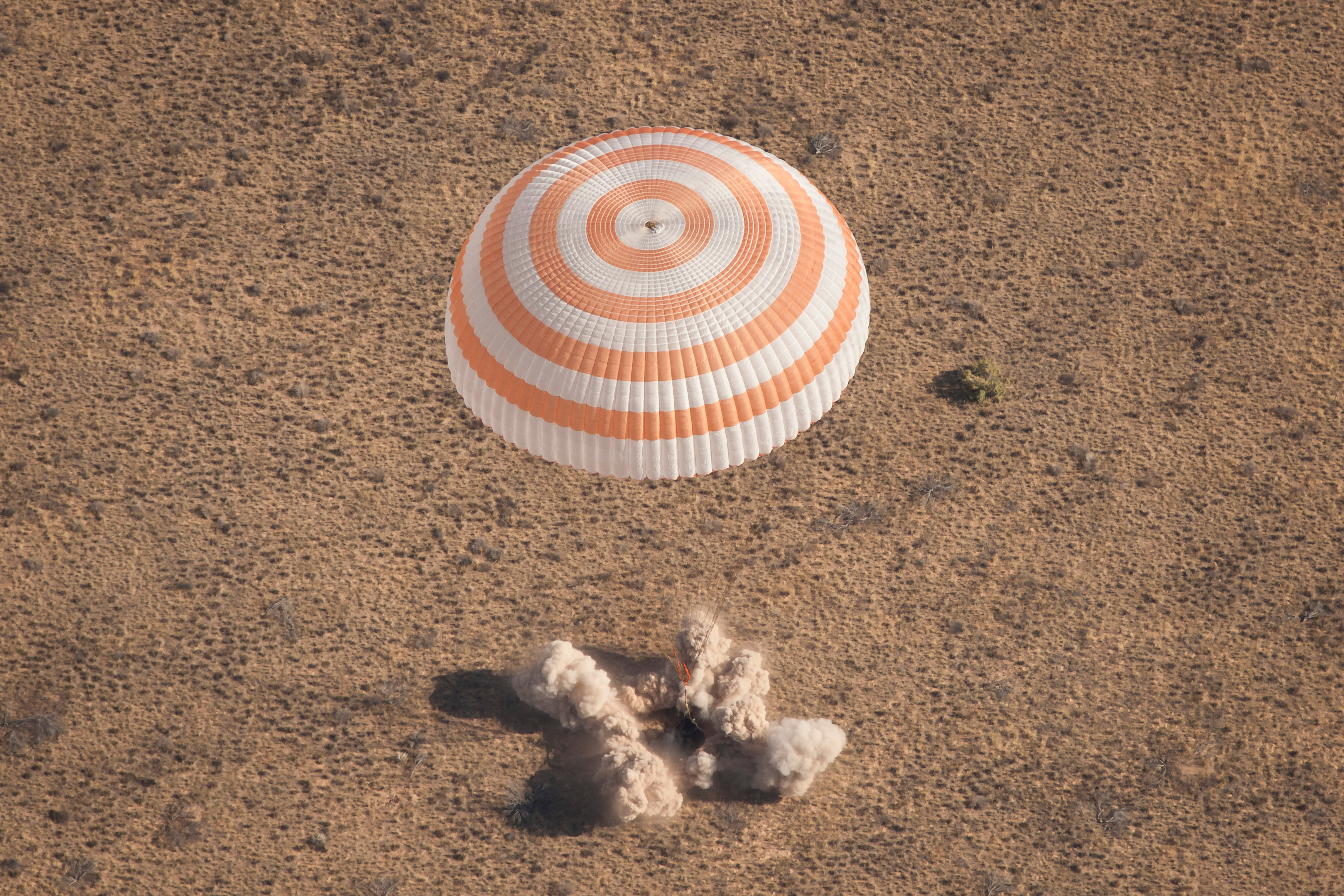 The Soyuz TMA-21 spacecraft is seen as it lands with Russian cosmonaut Andrey Borisenko, Expedition 28 commander; along with NASA astronaut Ron Garan and Russian cosmonaut Alexander Samokutyaev, both flight engineers, in a remote area outside of the town of Zhezkazgan, Kazakhstan, on Sept. 16, 2011. Garan, Borisenko and Samokutyaev are returning from more than five months onboard the International Space Station where they served as members of the Expedition 27 and 28 crews.